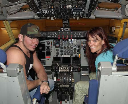 Matt Hardy and Amy "Lita" Dumas at the 190th Air Refueling Wing, Kansas Air National Guard in Forbes Field in Topeka, Kansas.